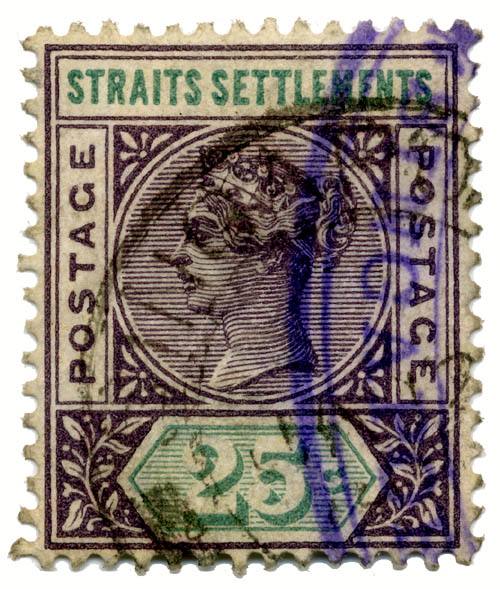 Scan of Straits Settlements 25c stamp of 1892